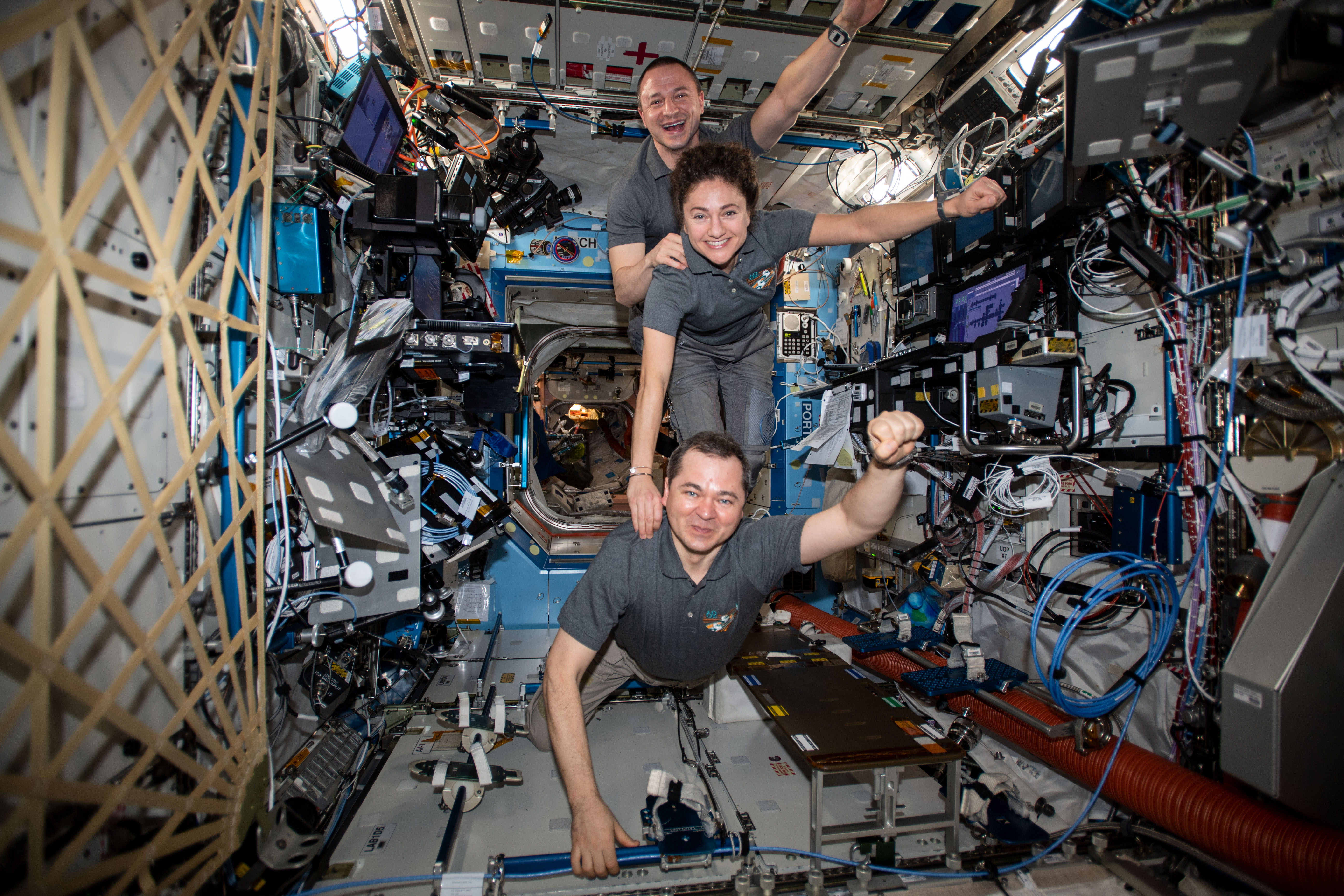 The Expedition 62 crew poses for a playful portrait aboard the International Space Station's U.S. Destiny laboratory module. From top to bottom are, NASA Flight Engineers Andrew Morgan and Jessica Meir and Roscosmos Commander Oleg Skripochka.